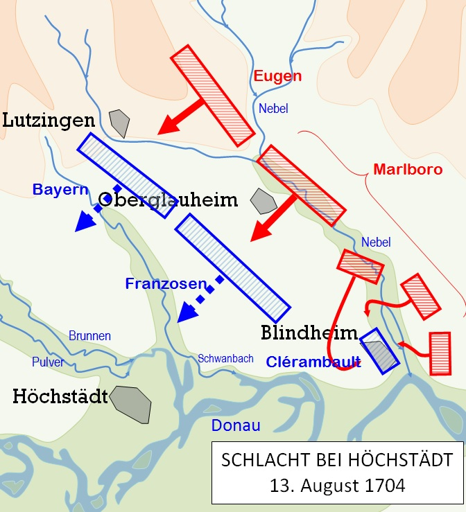 Battle of Blenheim 1704